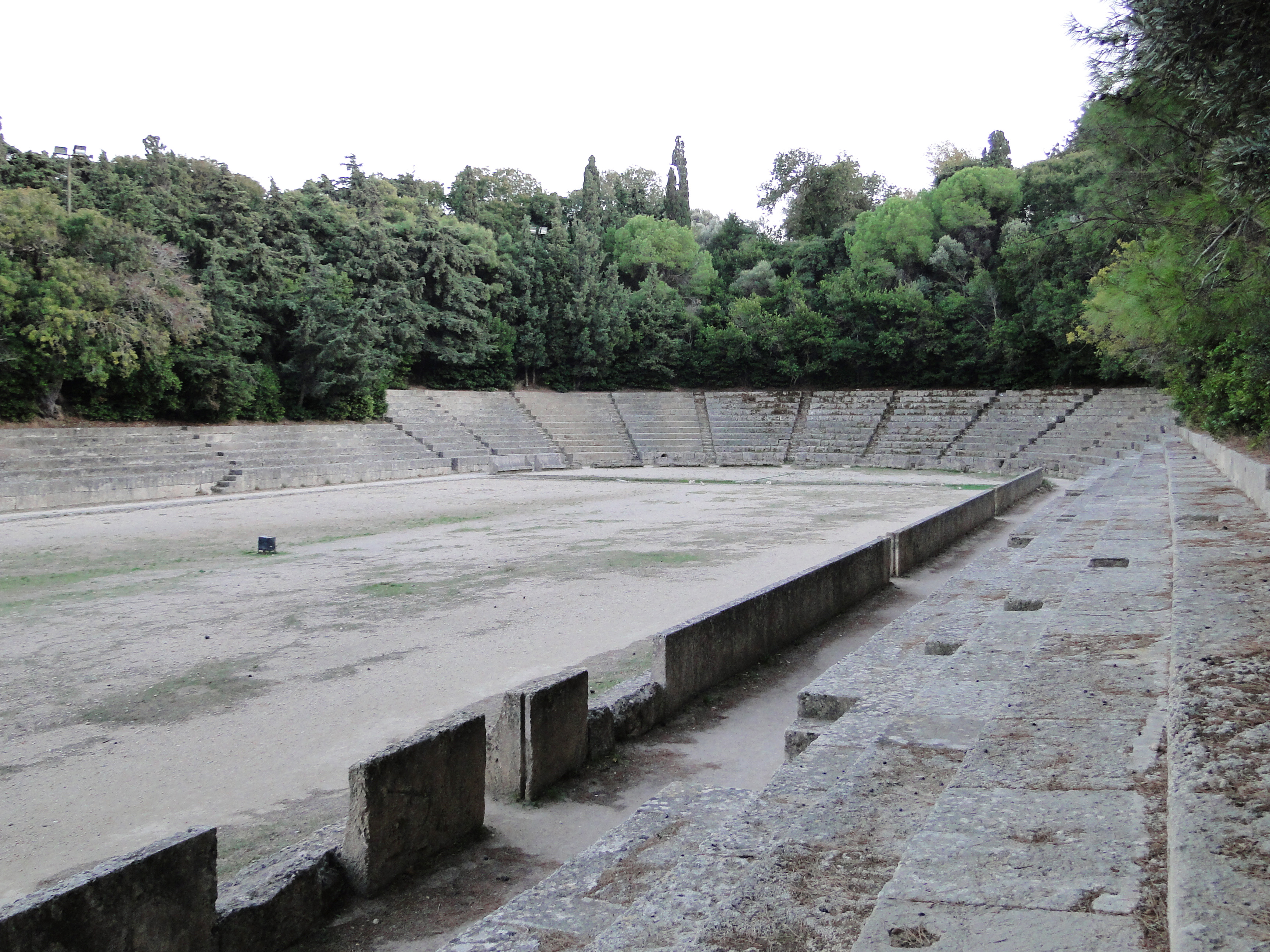 Ancient stadium on the Acropolis of Rhodes, Greece